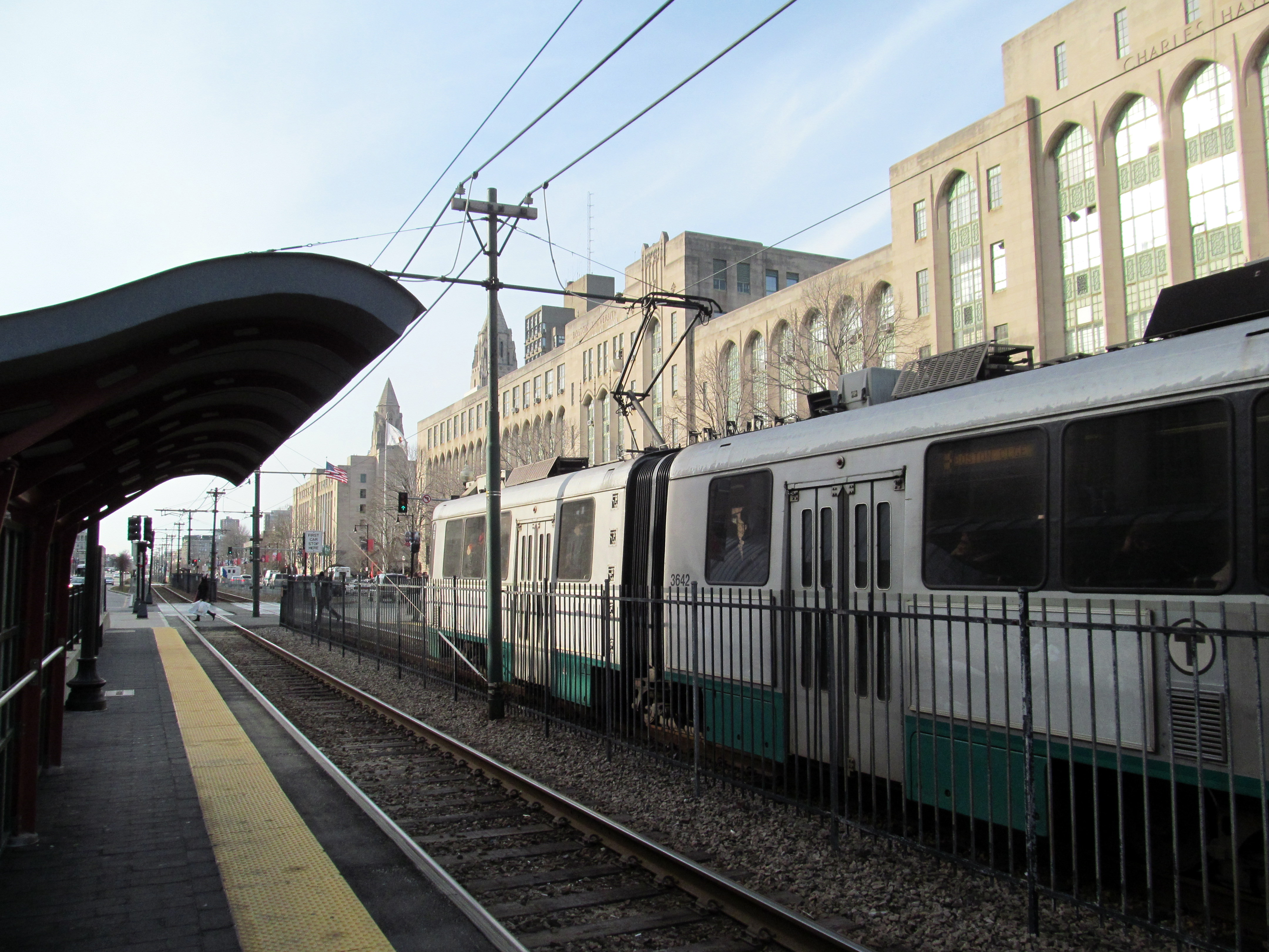 Outbound tram at BU East station on the B Branch